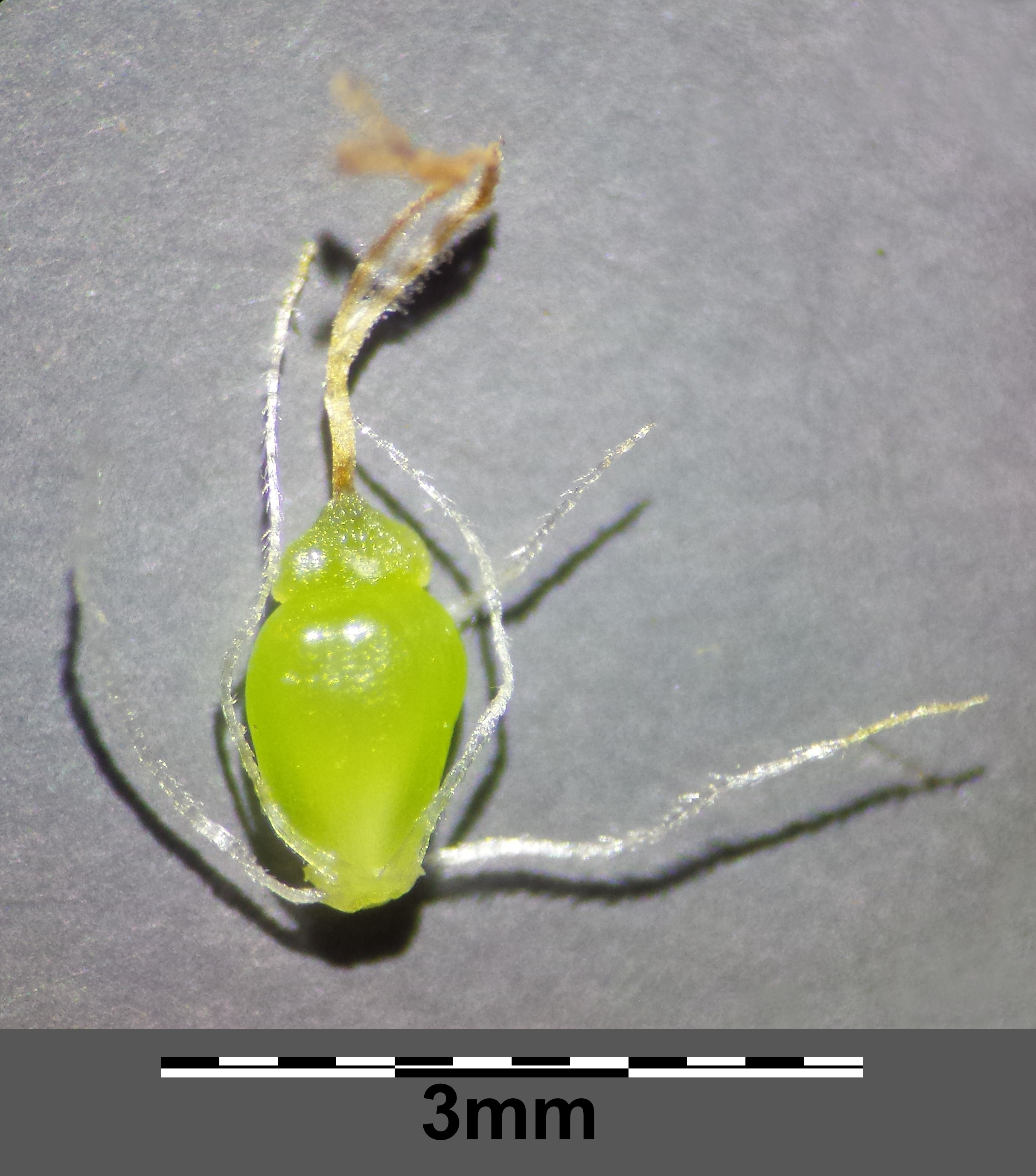 Flower/fruit with perigone bristles Taxonym: Eleocharis mamillata subsp. mamillata ss Fischer et al. EfÖLS 2008 ISBN 978-3-85474-187-9 Location: pond to the south of Pyhrabruck, district Gmünd, Lower Austria - ca. 550 m a.s.l. Habitat: ground of a pond